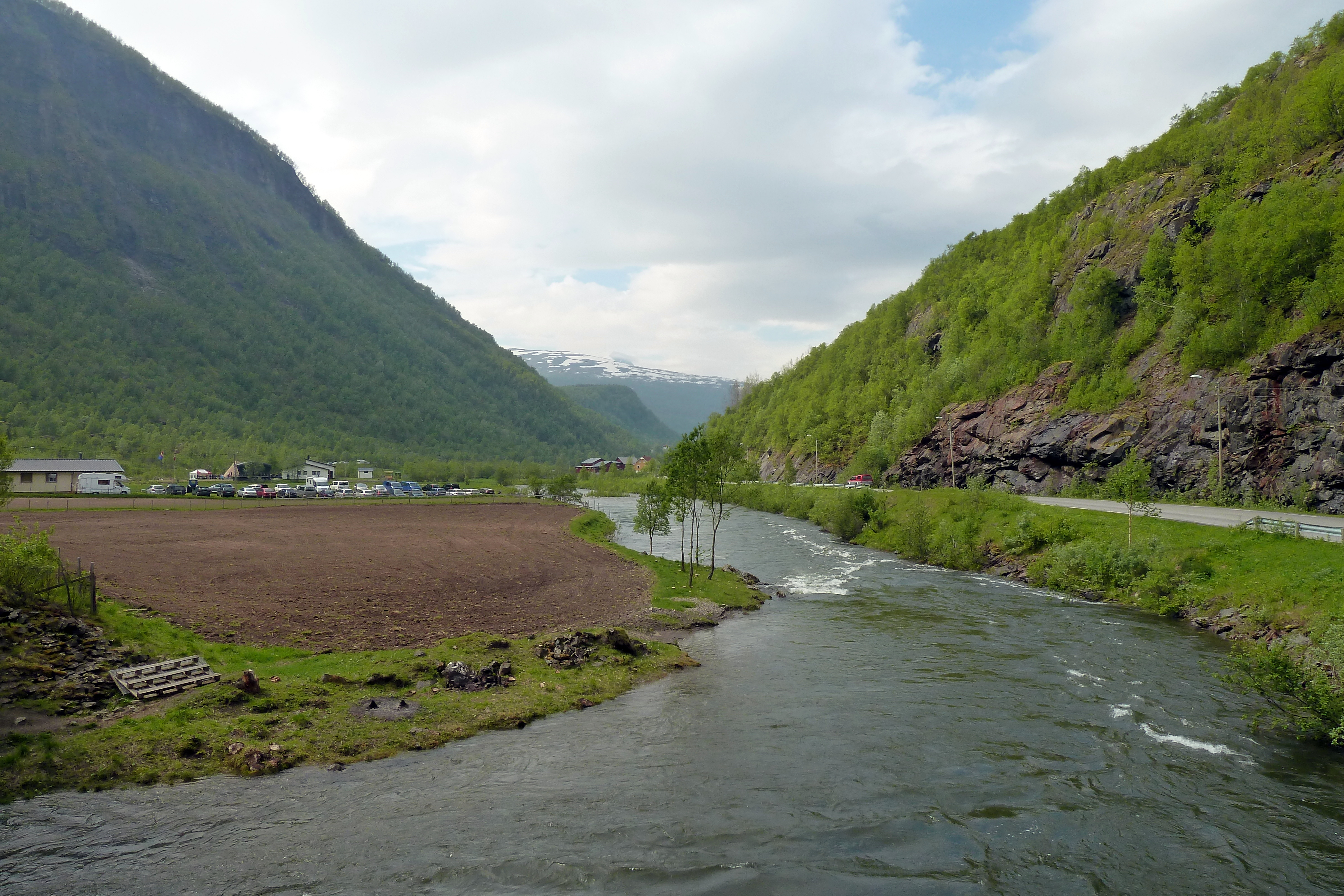 Spansdalen in Lavangen, Norway. View in direction towards Tennevoll.